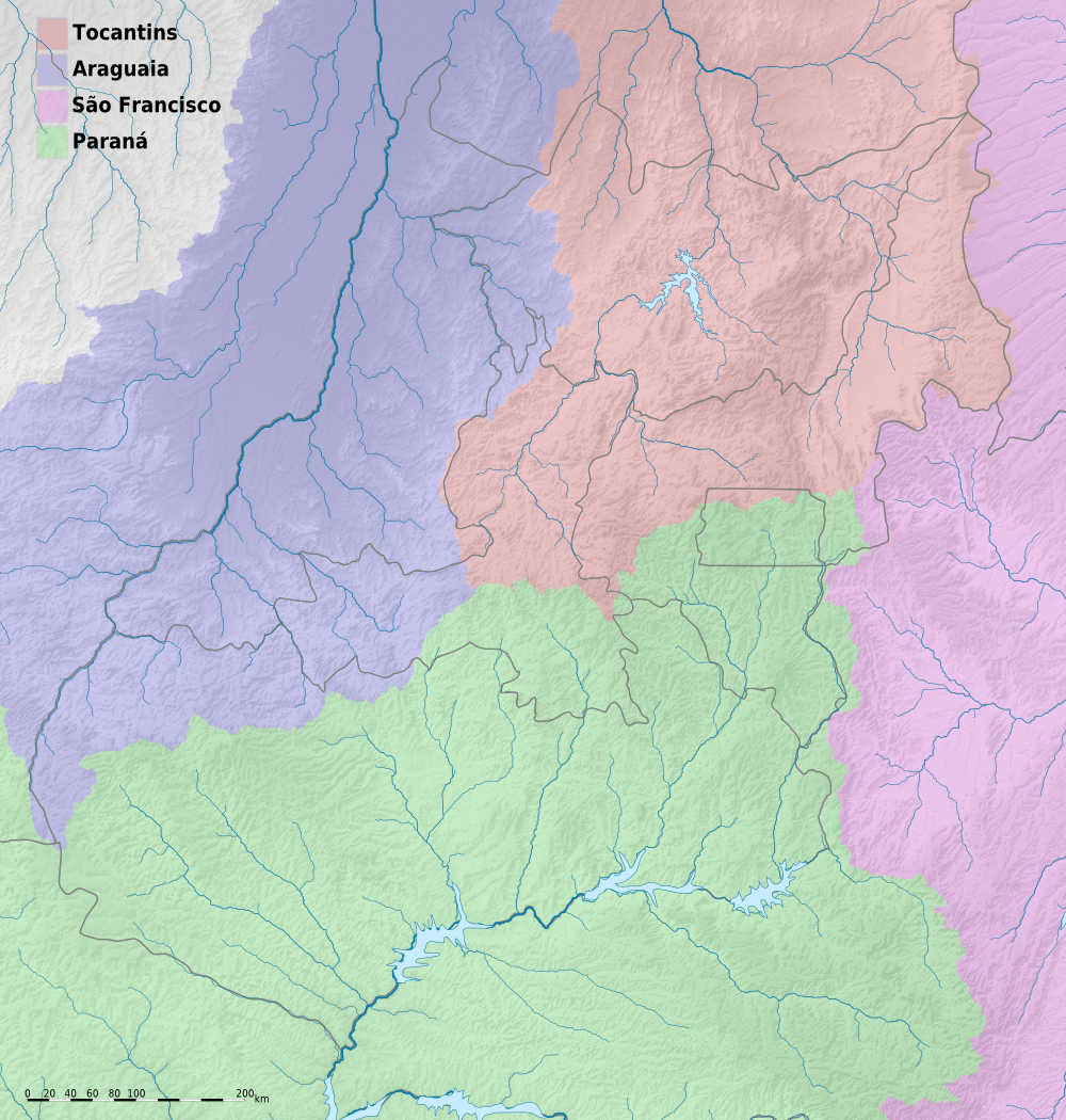 The water basins in brazilian state goiás.